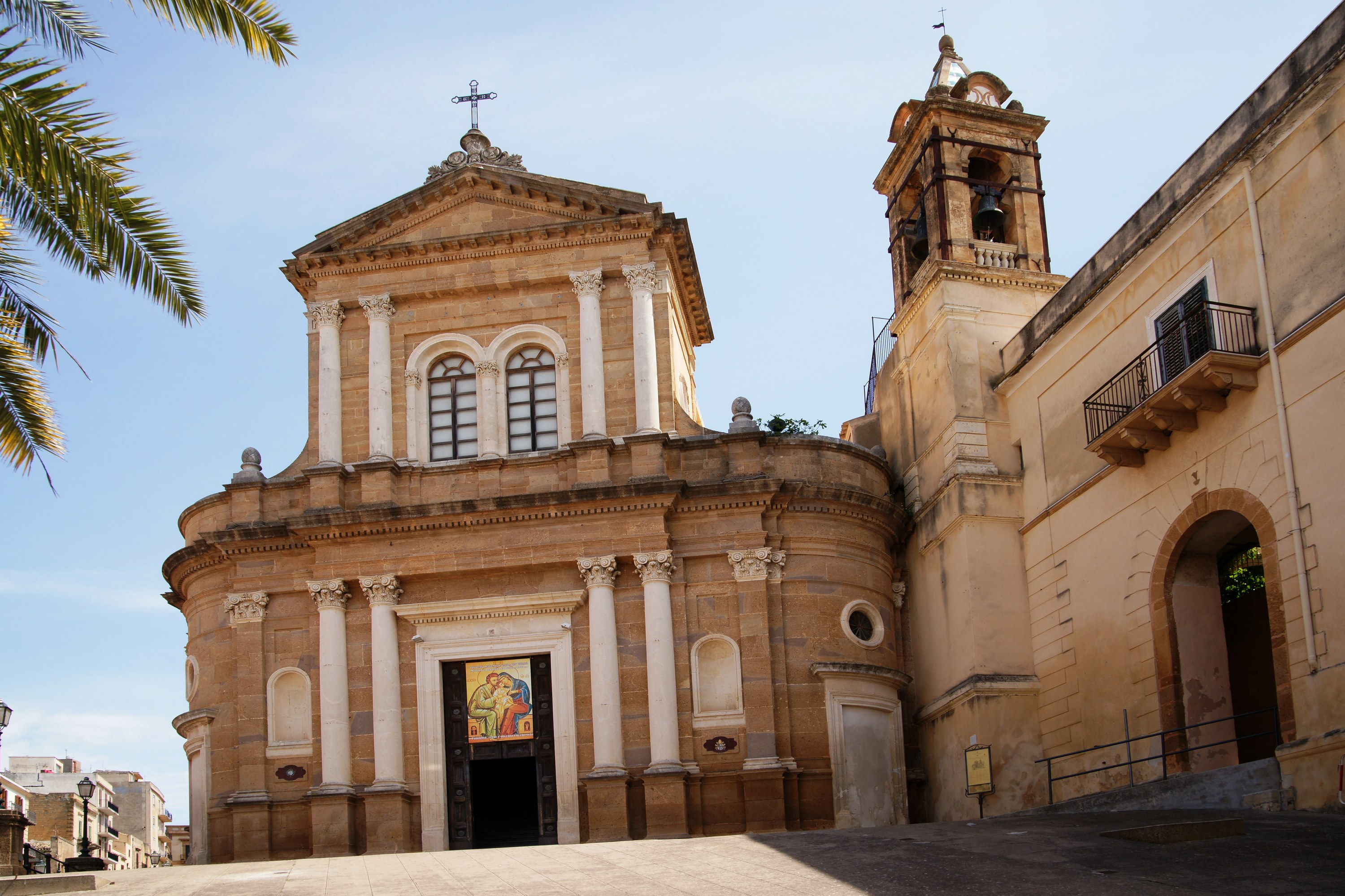 Sambuca de Sicilia: Chiesa del Carmine